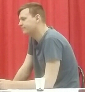 Aaron Dismuke photographed in Montréal, Québec , Canada at the 2019 Montreal Comiccon.